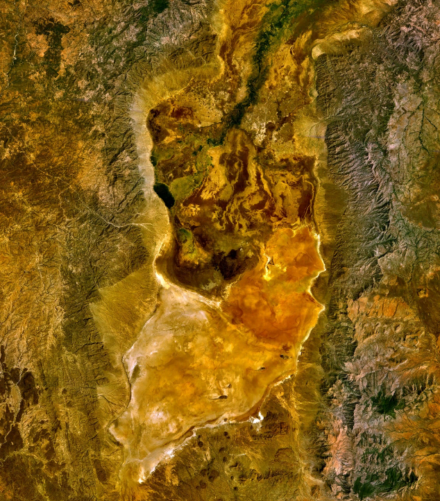 Lake Chew Bahir (or what's left of it) as seen from space.